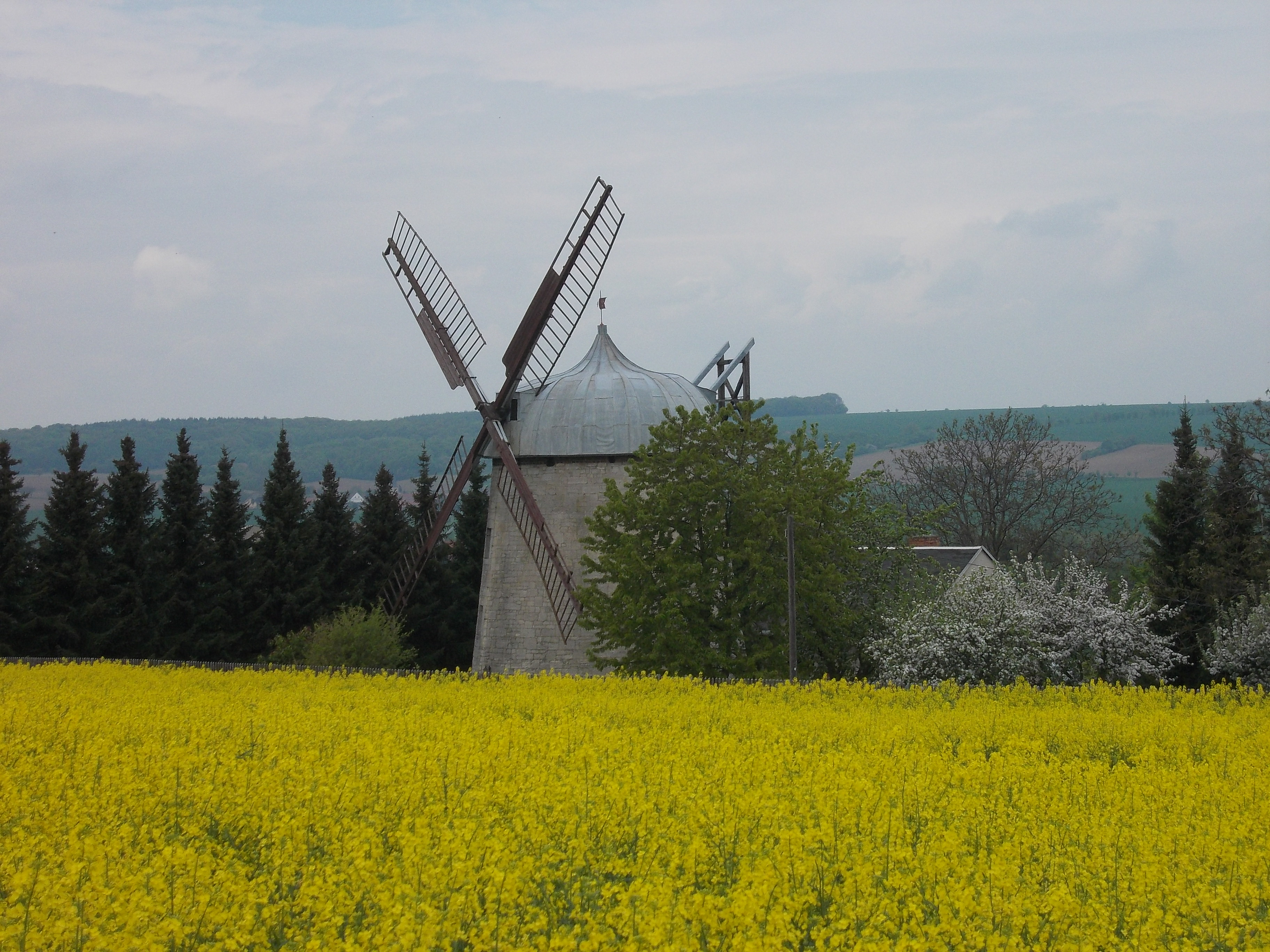 Tower mill in Niedermöllern (Lanitz-Hassel-Tal, district: Burgenlandkreis, Saxony-Anhalt)